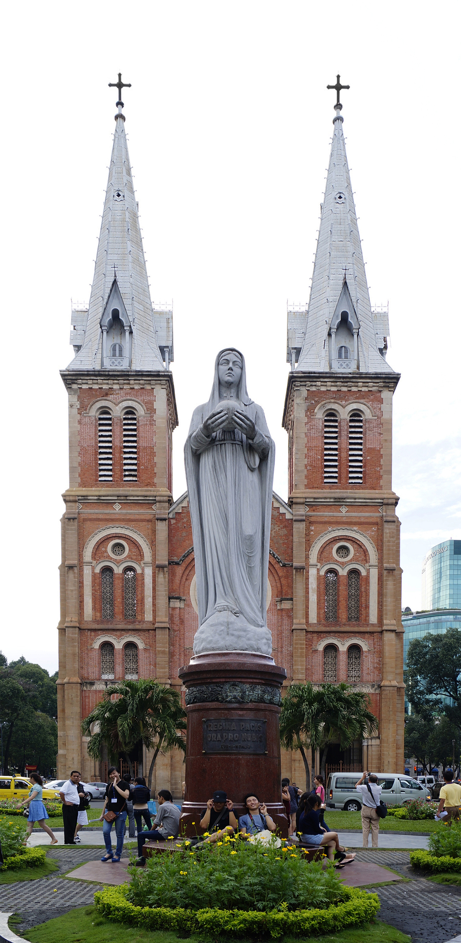 Front view of Saigon Notre-Dame Basilica and the statue of Maria